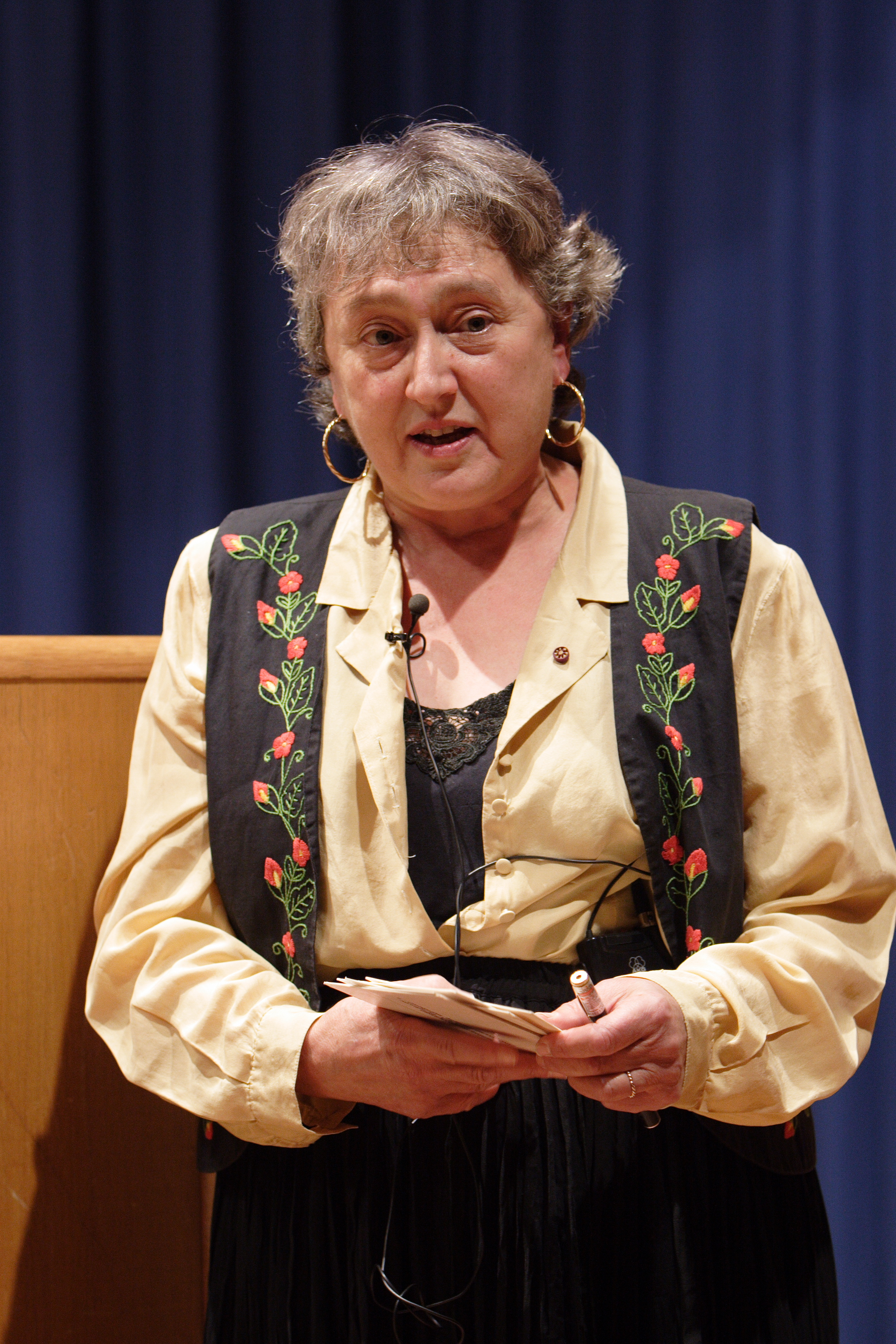 Lynn Margulis giving the inaugural lecture Training Course in Science News, "Science in contemporary culture. The example of live sands."